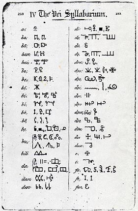 Specimen of Vai Writing by M. Massaquoi, Origin Journal of the African Society, 1911.